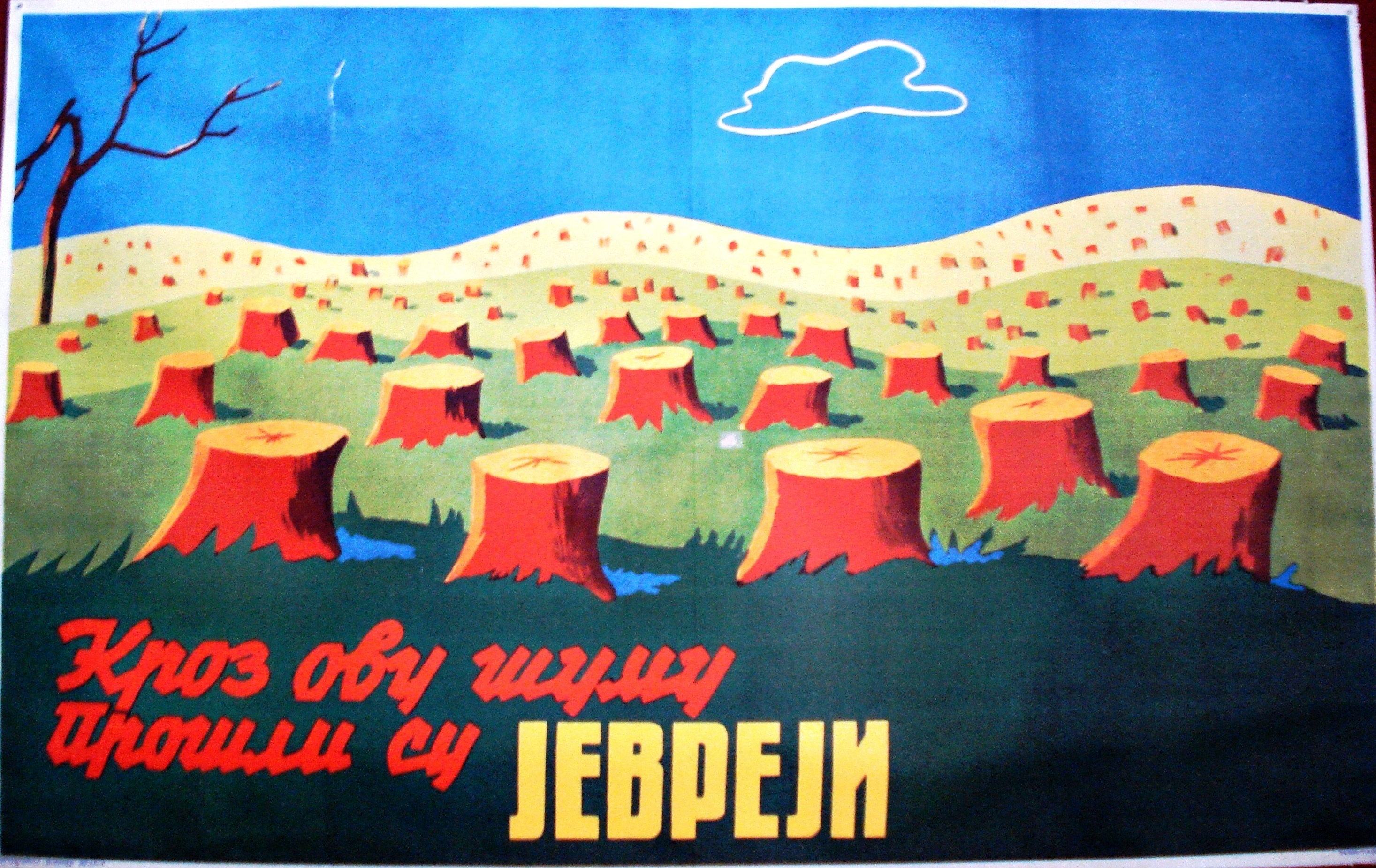 Anti-Semitism poster in World War 2. Title is in Serbian language. It says: "Jews passed through this forest"